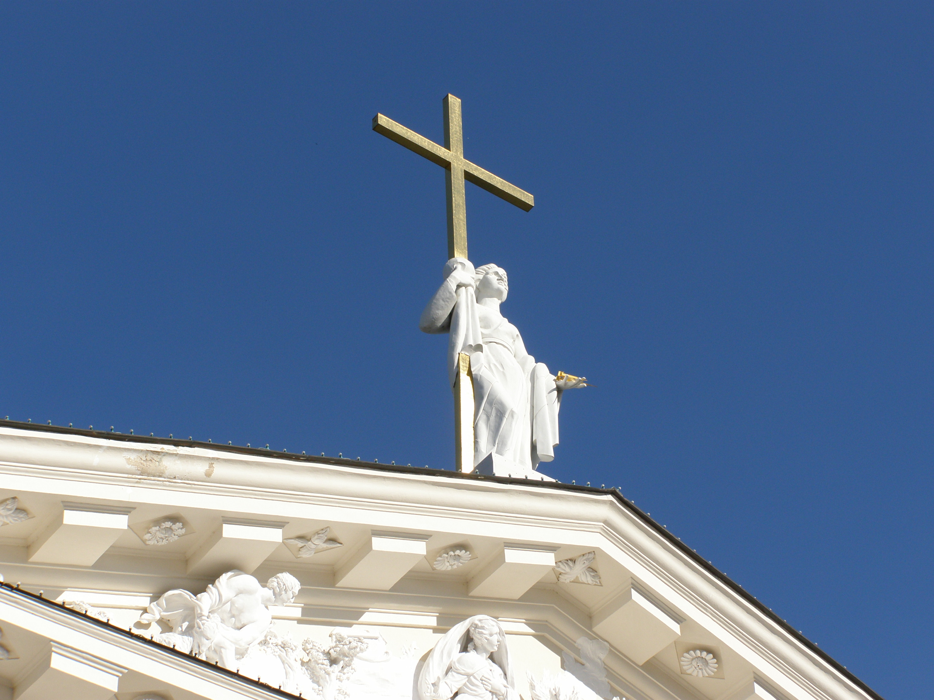 Saint Helena - sculpture on the facade of the cathedral in Vilnius